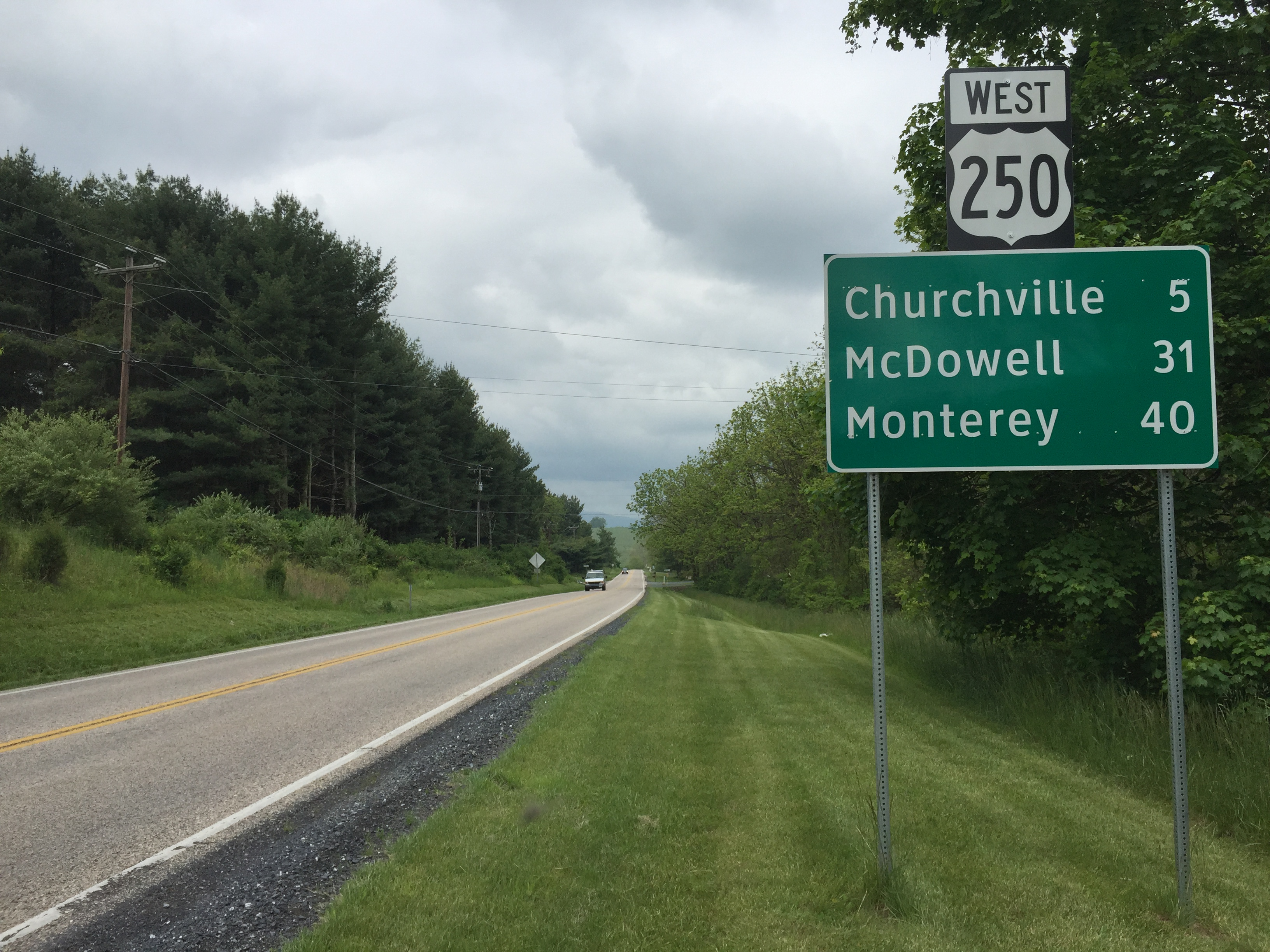 View west along Churchville Avenue (U.S. Route 250) just northwest of Staunton in Augusta County, Virginia